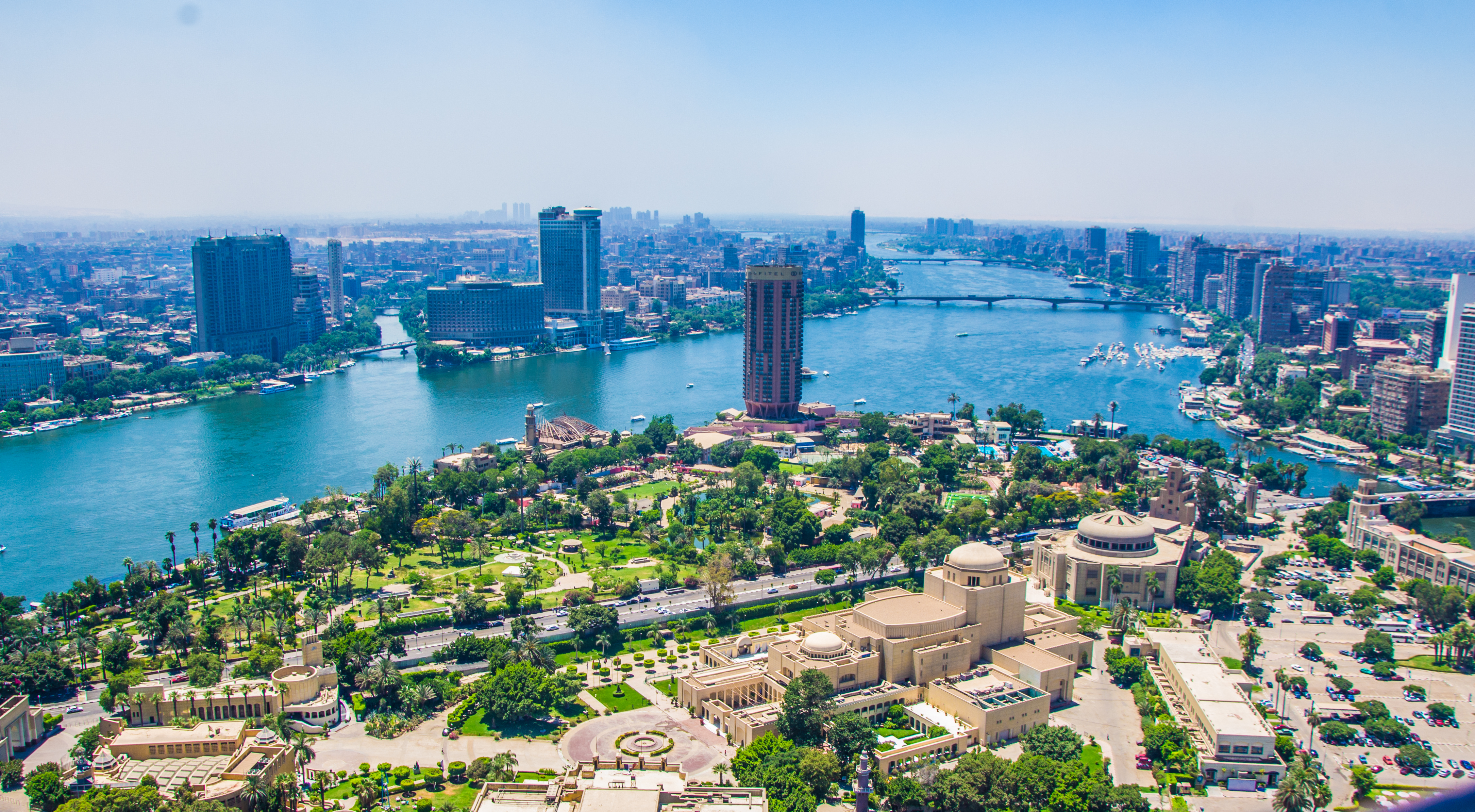 The View From Cairo Tower